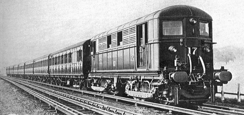 Electric Locomotive and Train, Metropolitan Rly. Showing Fourth-Rail Electric Track Equipment Photo: Metropolitan Railway